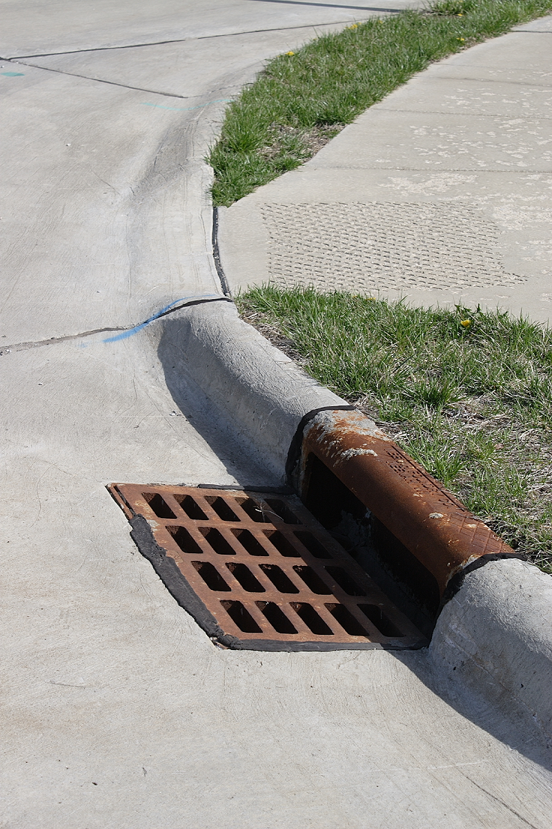 Curb, gutter, and storm drain, more specifically, a curb "inlet", O'Fallon, Illinois, 2006. Robert Lawton, (self)